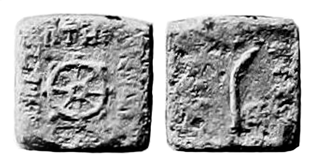 Menander Soter wheel coin. Obv ΒΑΣΙΛΕΩΣ ΣΩΤΗΡΟΣ ΜΕΝΑΝΔΡΟΥ "Of Saviour King Menander". Rev Palm of victory, Kharoshthi legend Māhārajasa trātadasa Menandrāsa, British Museum.Described in "The coins of the Greek and Scythic kings of Bactria and India in the British Museum", p.50 and Pl. XII-7 [1]